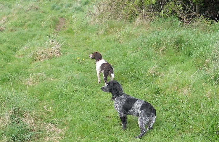 An English Springer Spaniel (Liver and White) and English Cocker Spaniel (Blue Roan) learning how to flush